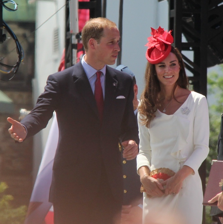 Prince William, Duke of Cambridge and Catherine, Duchess of Cambridge, on their first royal tour as a married couple, visiting Ottawa for Canada Day celebrations.